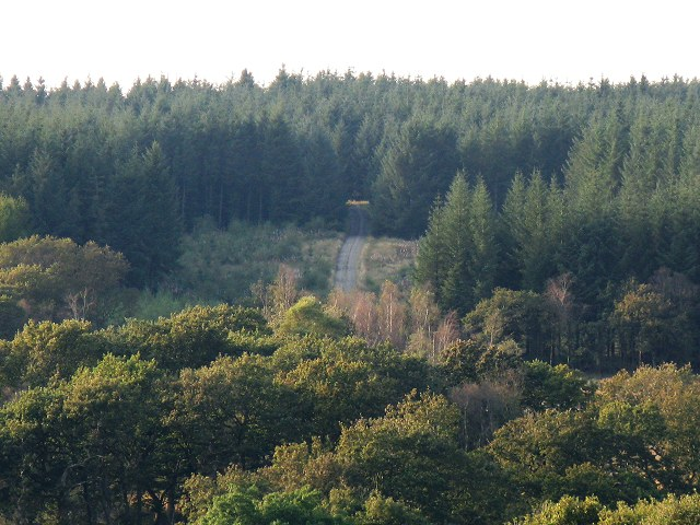 Blean-egel Wood This wood near the Egel river seems to have an unmapped forestry road. The photo is taken from the public right of way on the other side of the river.